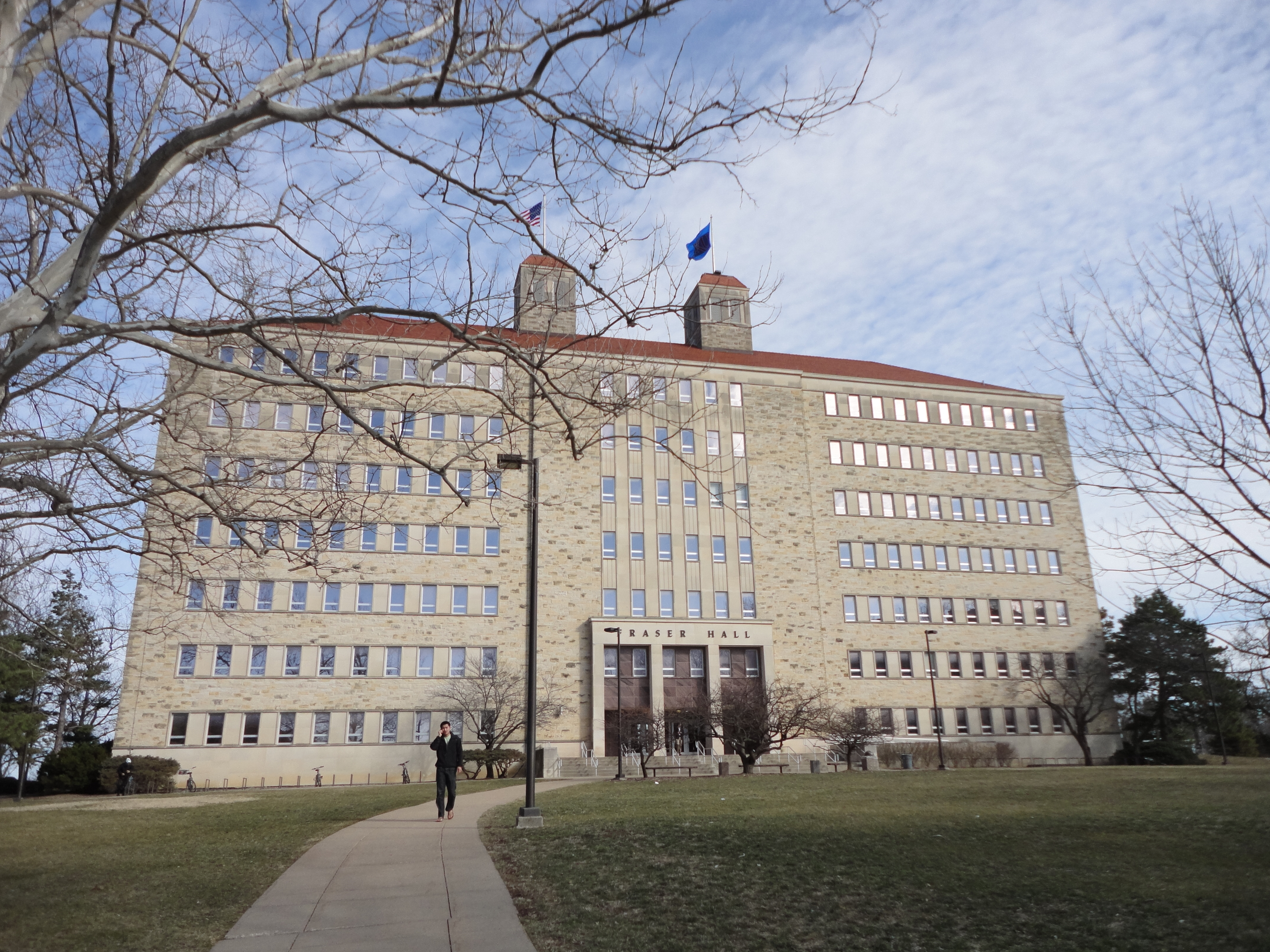 KU's Landmark Academic Building